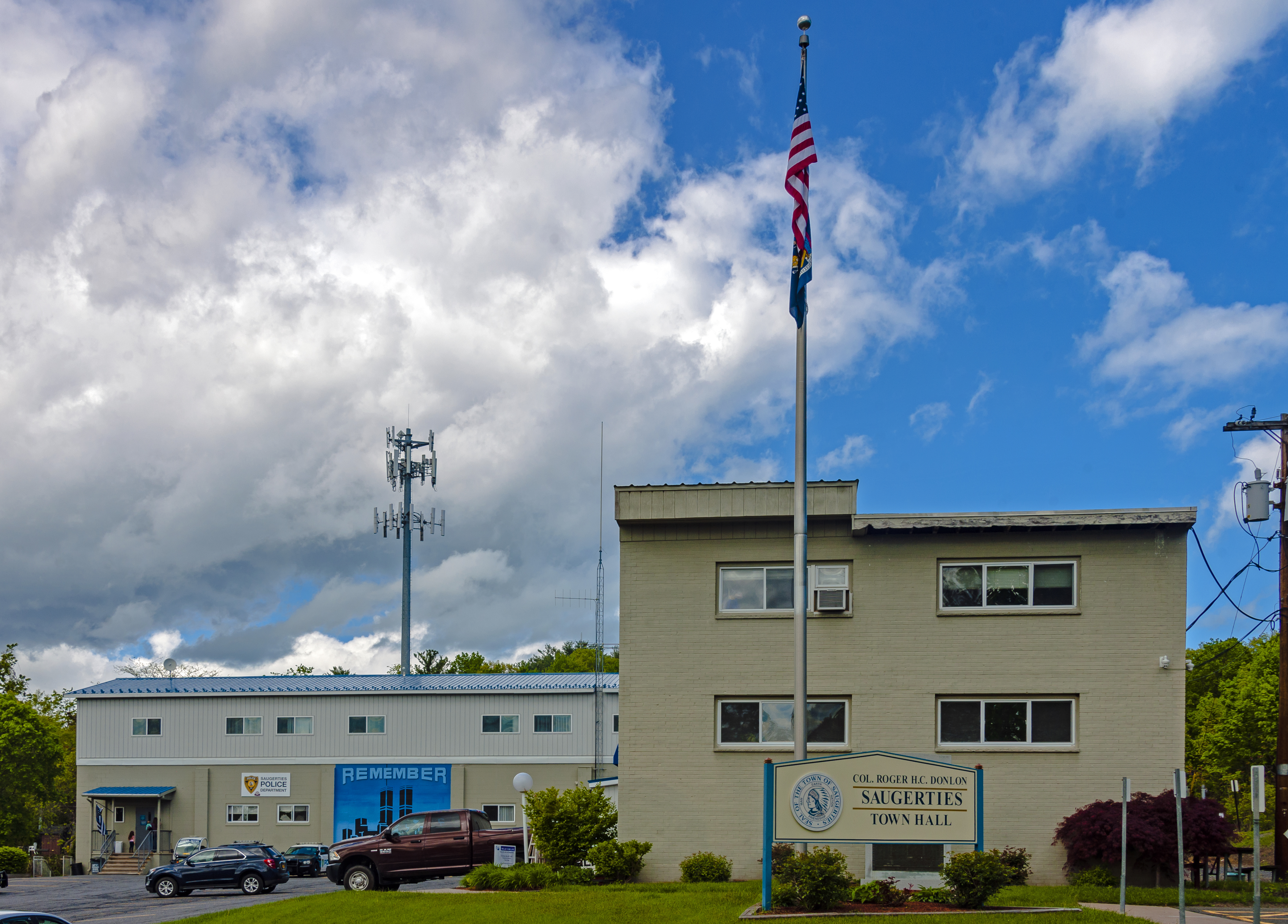 Saugerties, NY, USA, town hall